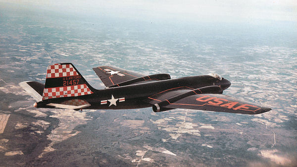 RB-57 of the 363d Tactical Reconnaissance Group - Shaw AFB, SC